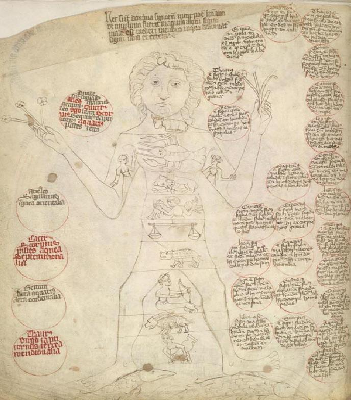 Astrology played a very important part in Medieval medicine; most educated physicians were trained in at least the basics of astrology to use in their practice.